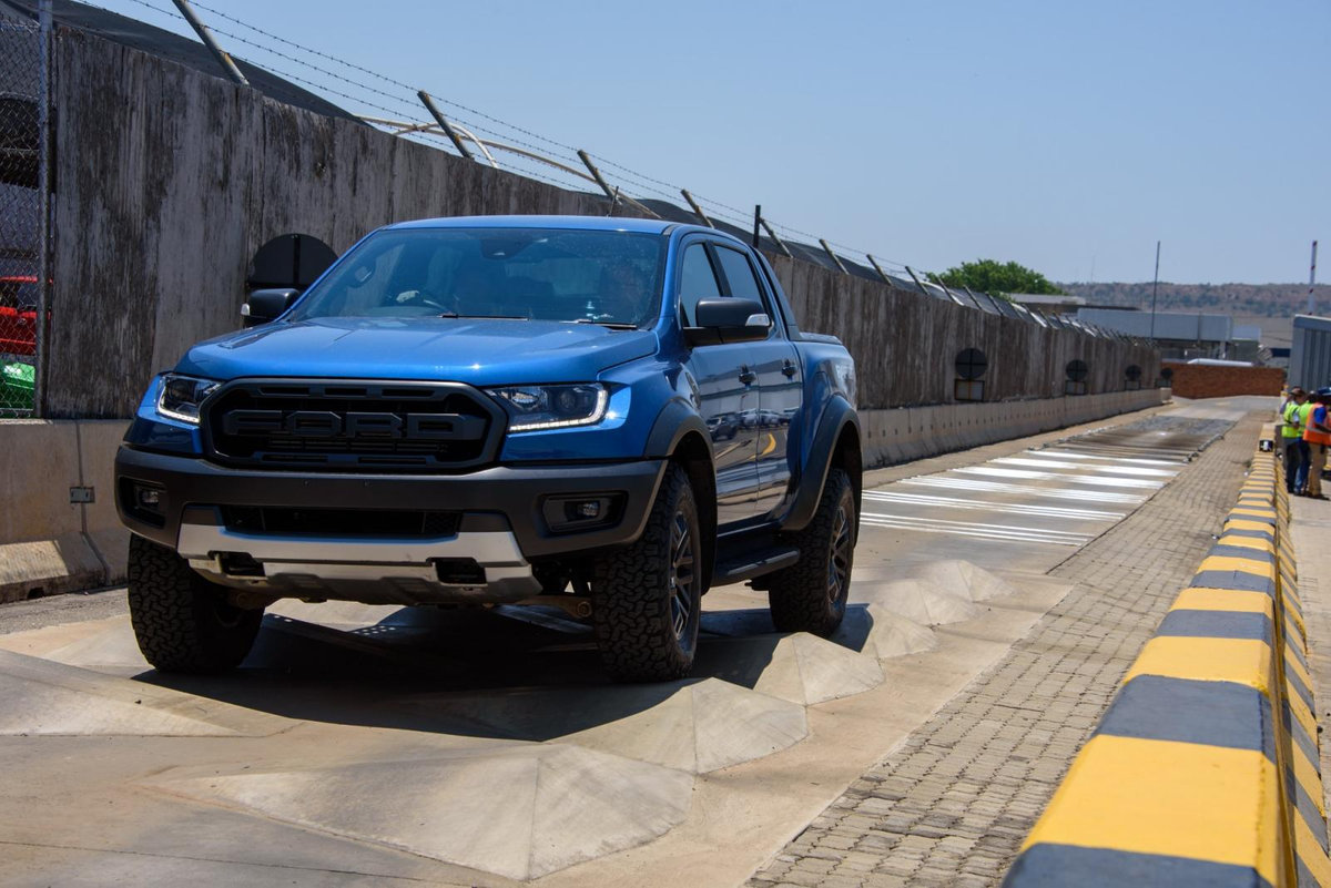 Ford Ranger Raptor during a test session during its development on an extreme test track